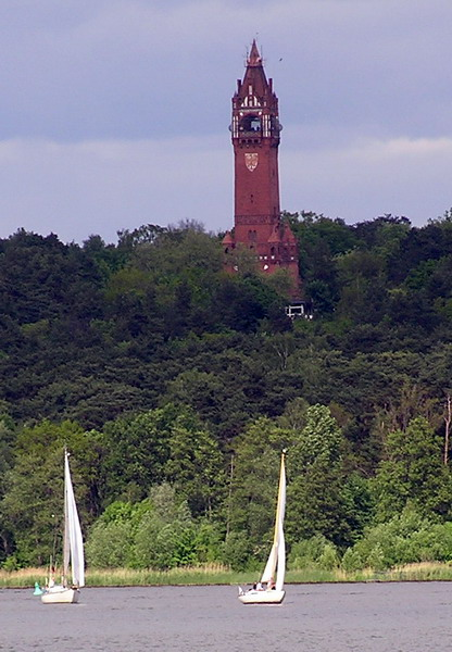 The Grunwaldturm (Grunewald tower) in Berlin-Grunewald, seen from other Havel side